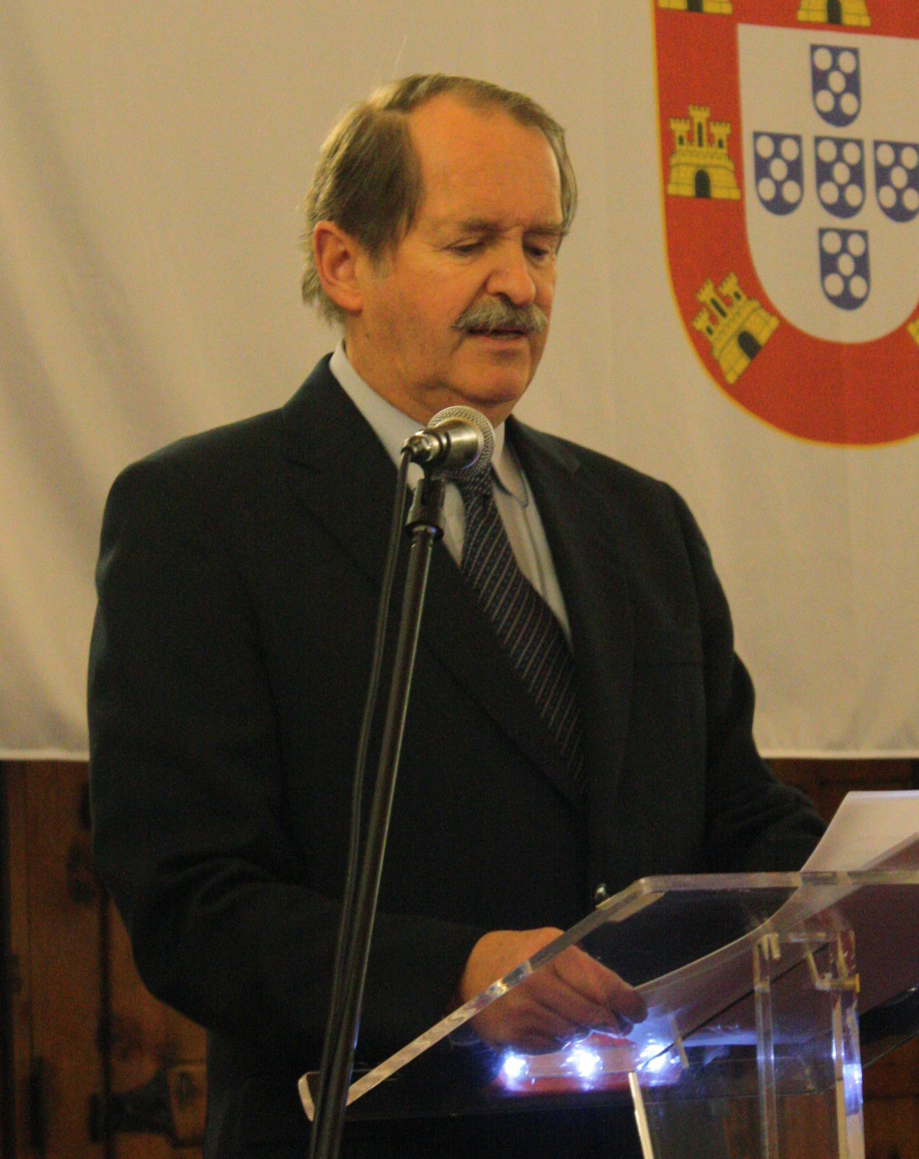 Jantar dos Conjurados.2008 029 (cropped and color corrected)